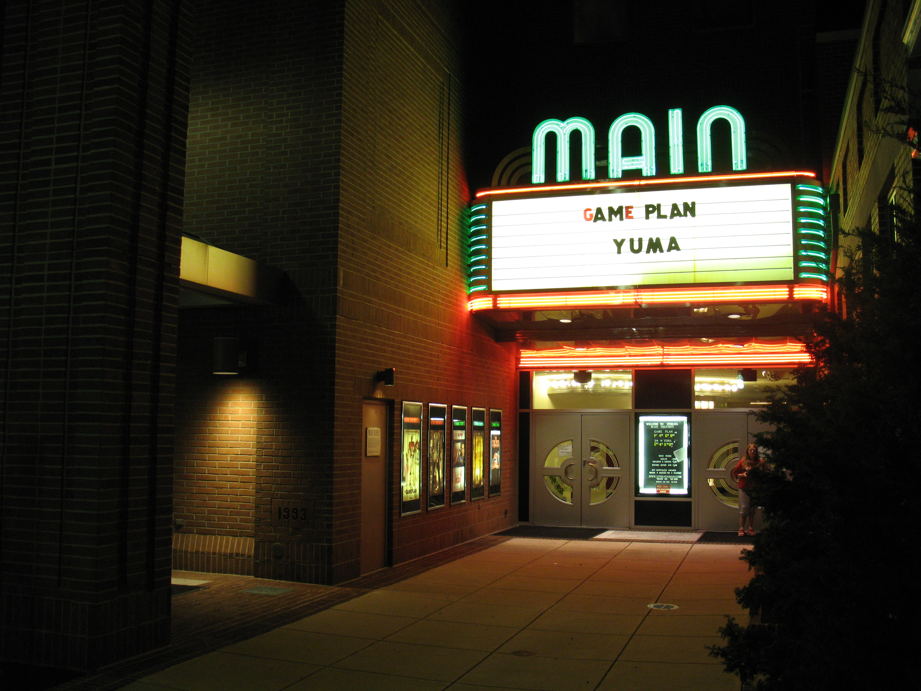 The historic Main Theatre on Main Street, Ephrata, Pennsylvania